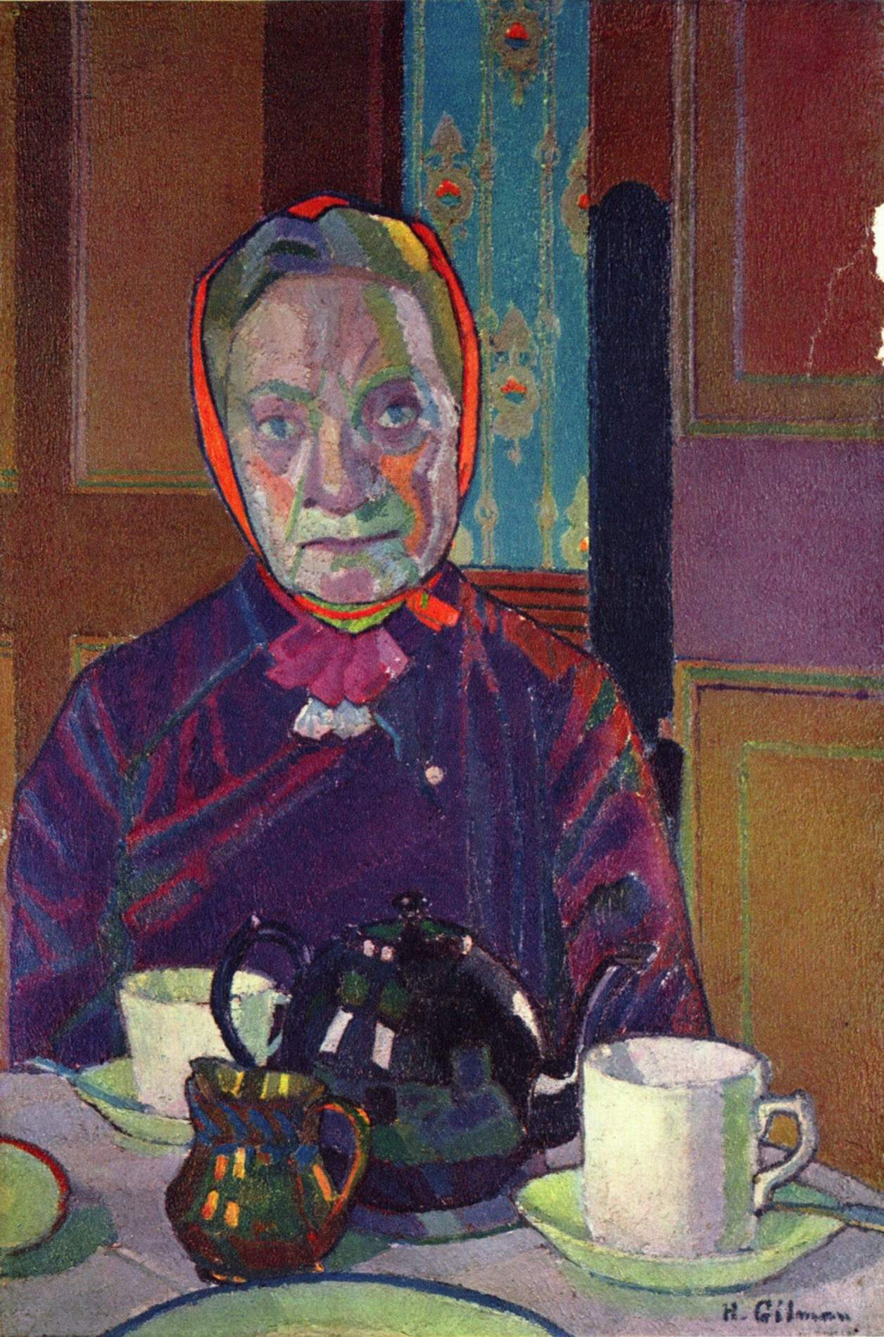 Caption from the museum The subject of a number of portraits by Harold Gilman, Mrs Mounter lodged at the same address as the artist at 47 Maple Street, off Tottenham Court Road. In this painting her direct gaze and time-worn features, highlighted in warm tones and haloed tightly by an orange kerchief, draws the viewer in. The ordinary crockery on the table indicates the unceremonious sharing of breakfast across social classes and despite wartime shortages.